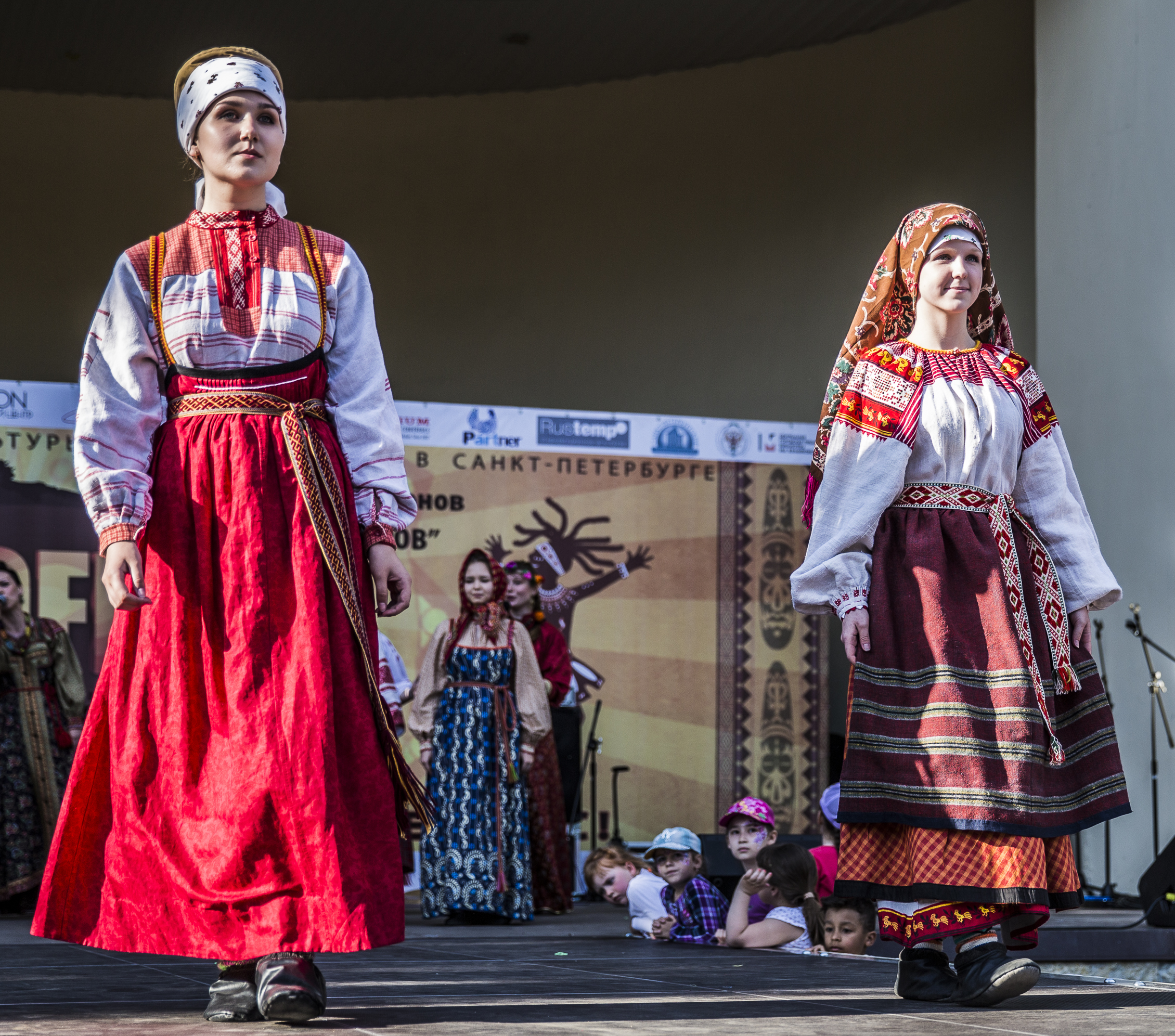 Ethnic Russian clothes